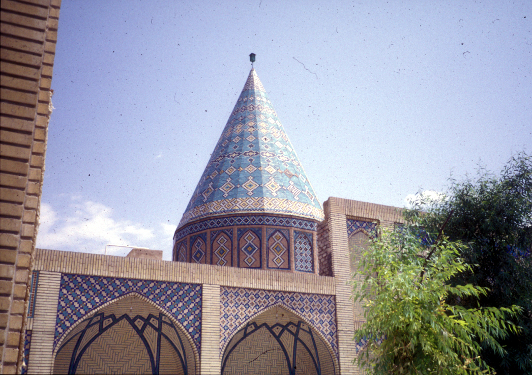 Tomb of Abu Lu Lu, as of 2005. From my old slides